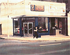 Yonge Street Location circa 1966